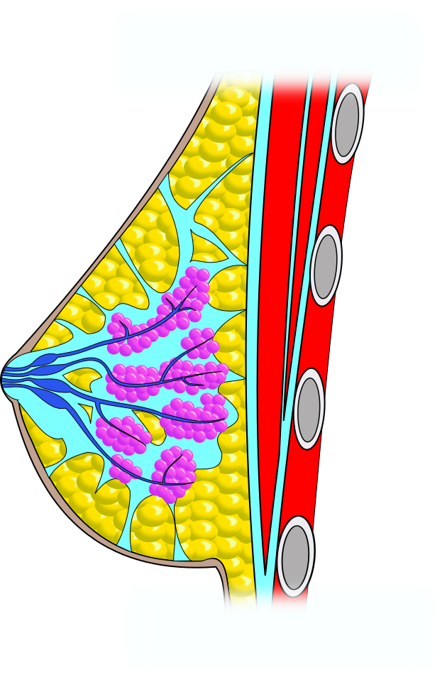 unlabeled sagittal section of breast anatomy